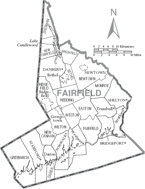 Map of Fairfield County, Connecticut, United States with township and municipal boundaries